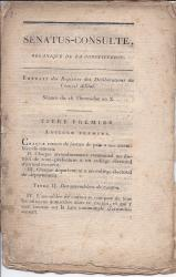 Title page of the Constitution of the Year X